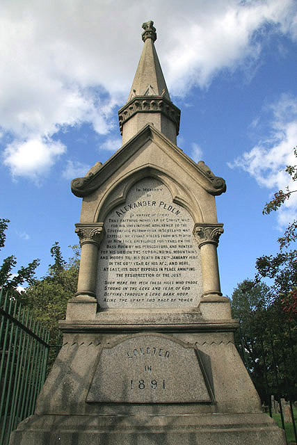 The Peden Memorial at Cumnock This granite monument is in memory of Alexander Peden, a minister who wandered the hills of Southern Scotland preaching in the times of the Covenanters. The monument stands in a railed enclosure at the entrance to the old cemetery at Barrhill Road, along with 2 more stones to Peden and 2 stones to 3 more martyrs. For good information on Alexander Peden and his grave